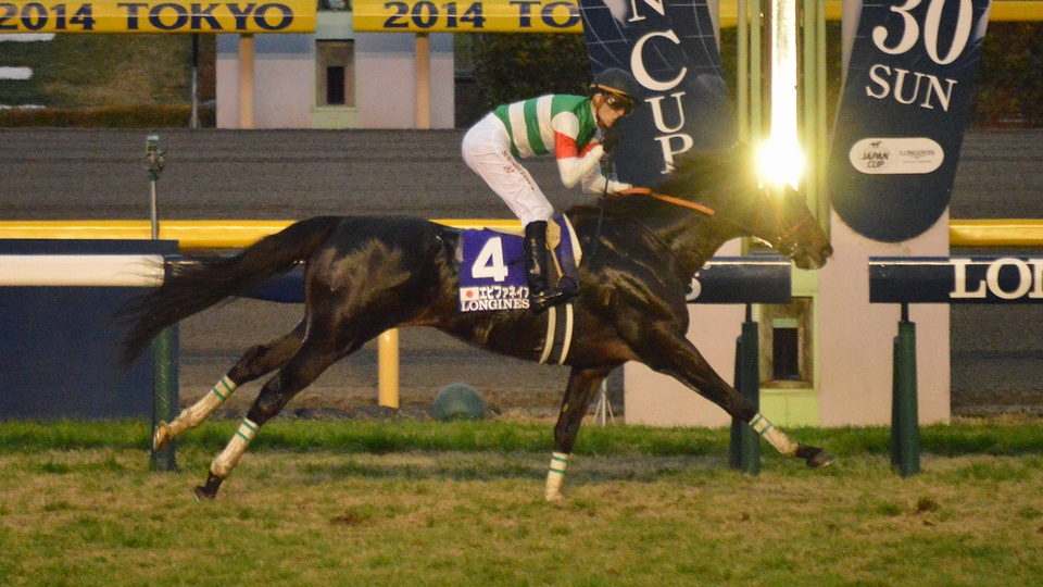 Japanese race horse Epiphaneia at Tokyo racecourse. Tokyo (JPN) 30 Nov 2014Japan Cup (Grade 1) (3yo+) (Turf) 1m4f Firm RankHorse NameOddsAgeWgtTrainerJockey1stEpiphaneia (JPN)79/10C49-0Katsuhiko SumiiChristophe Soumillon2ndJust A Way (JPN)57/10H59-0Naosuke SugaiYuichi FukunagaOthers are omitted. (18 horses entered in a race.)